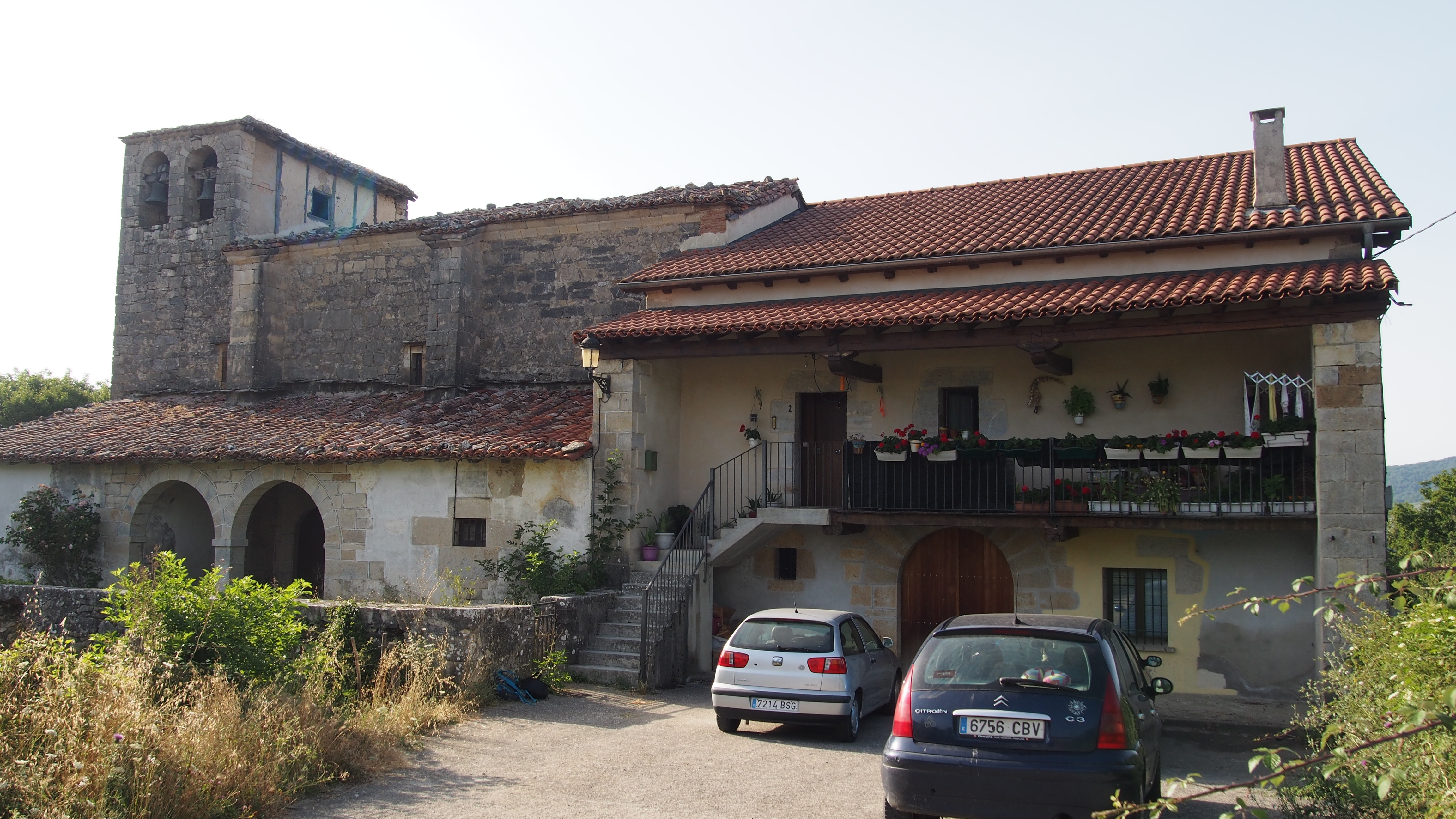 Church of Saint John Baptist and priest's house in Gelbentzu/Guelbenzu, Navarre.